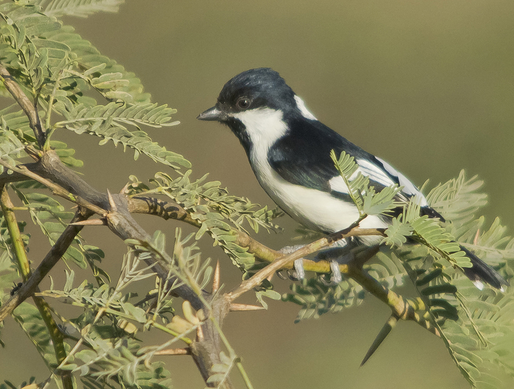 White napped tit at Kutch.